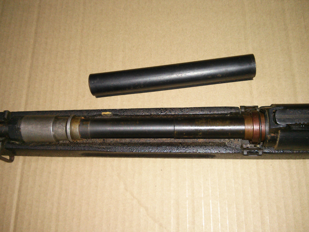 Vz. 52 with handguard removed (out of picture) and operating rod removed and placed on the right side.